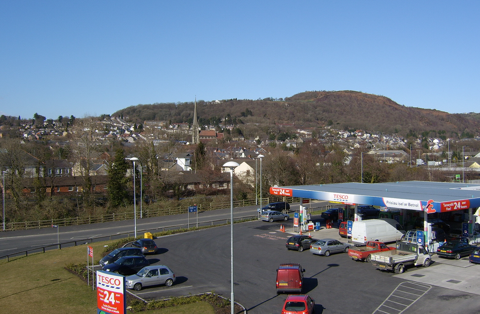 Pontardawe. A view of Pontardawe looking north from the footbridge over the A4067. The landmark spire of St Peter's is just left of centre.